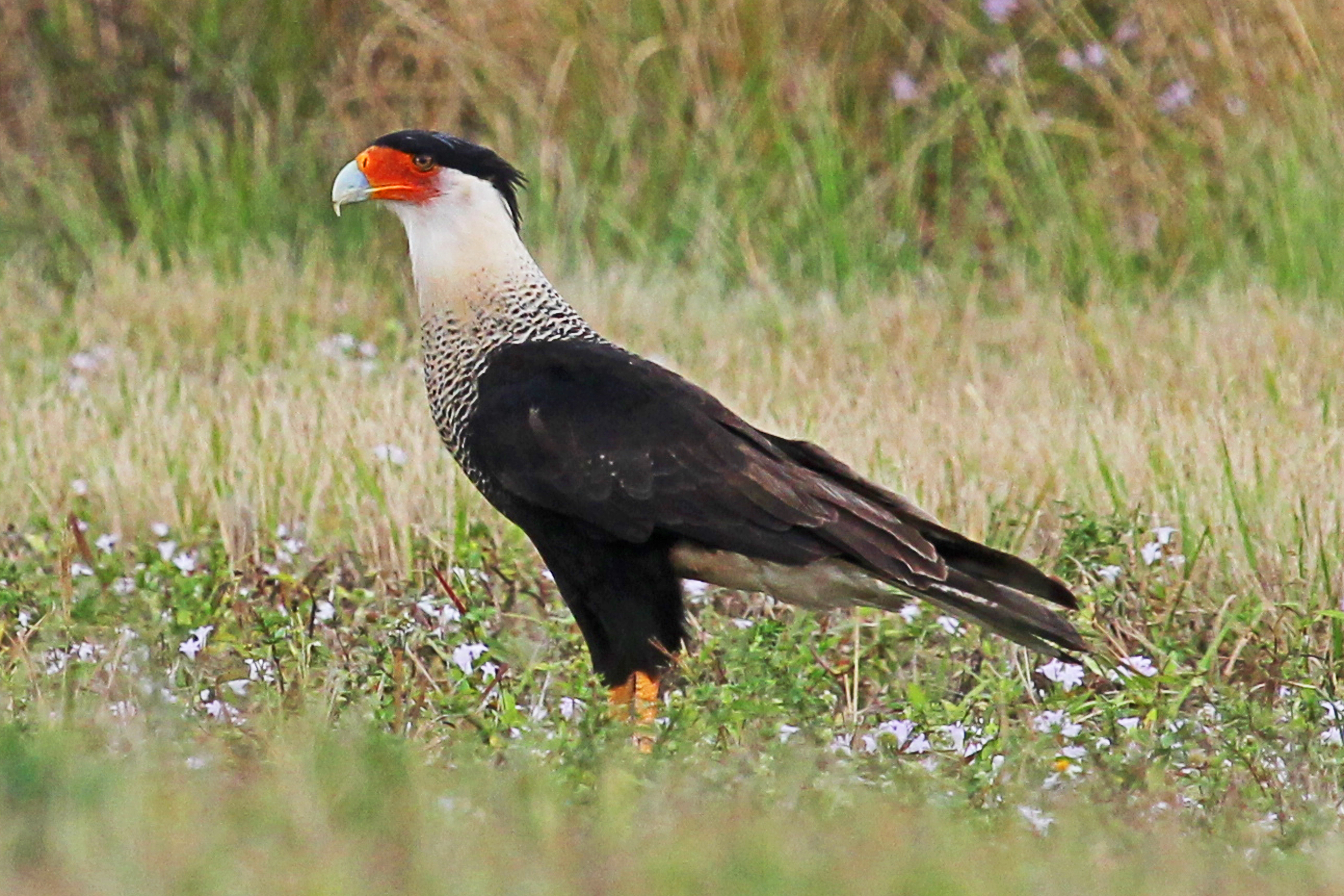 Crested Caracara - Caracara cheriway, along CR833, Hendry County, Florida.